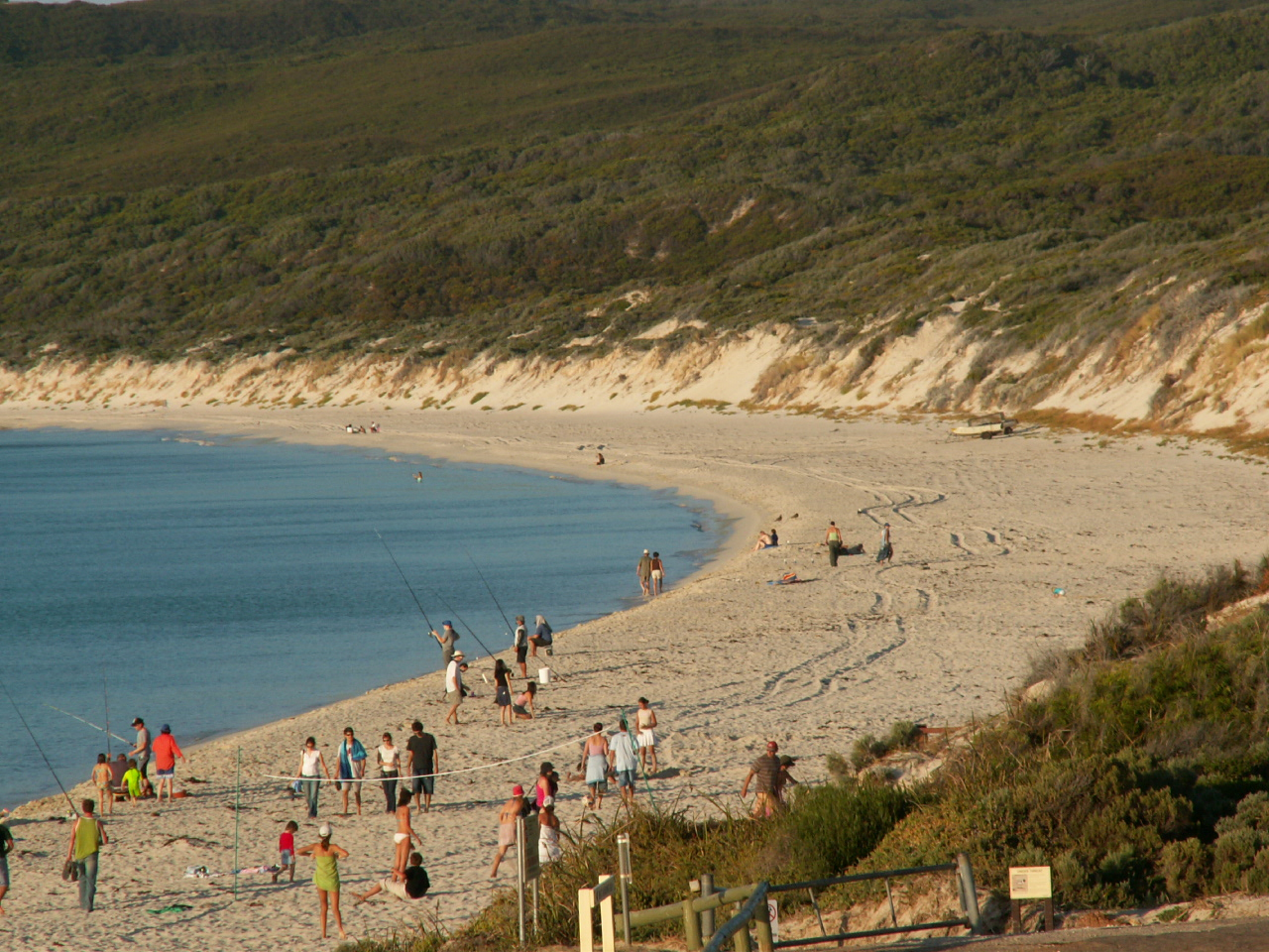 Hamelin Bay looking east